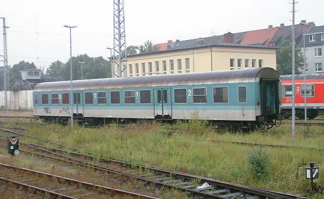 UIC-Z-railway carriage